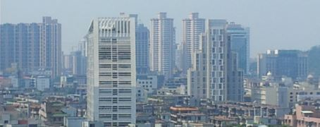 western district in zhongshan city